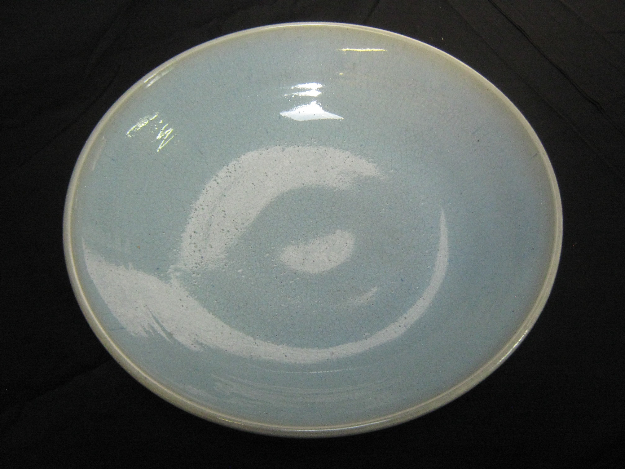 Blue dish by potter Ian Sprague 1970s; photographed in a private collection at Enfield Victoria